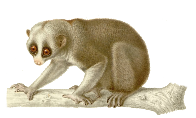 Nycticebus bengalensis (labeled Nycticebus cinereus, a junior synonym)